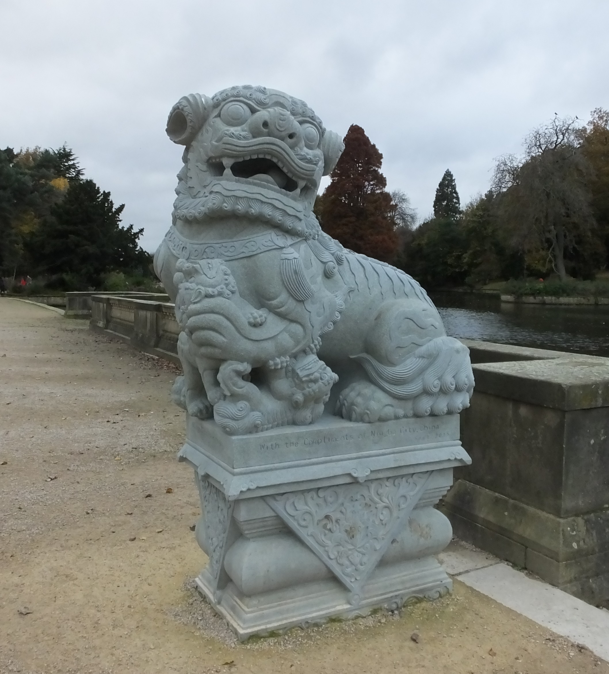 Highfields Park is a Grade II listed Park in Nottingham. The lions are a gift from the city of Ningbo. Left lion